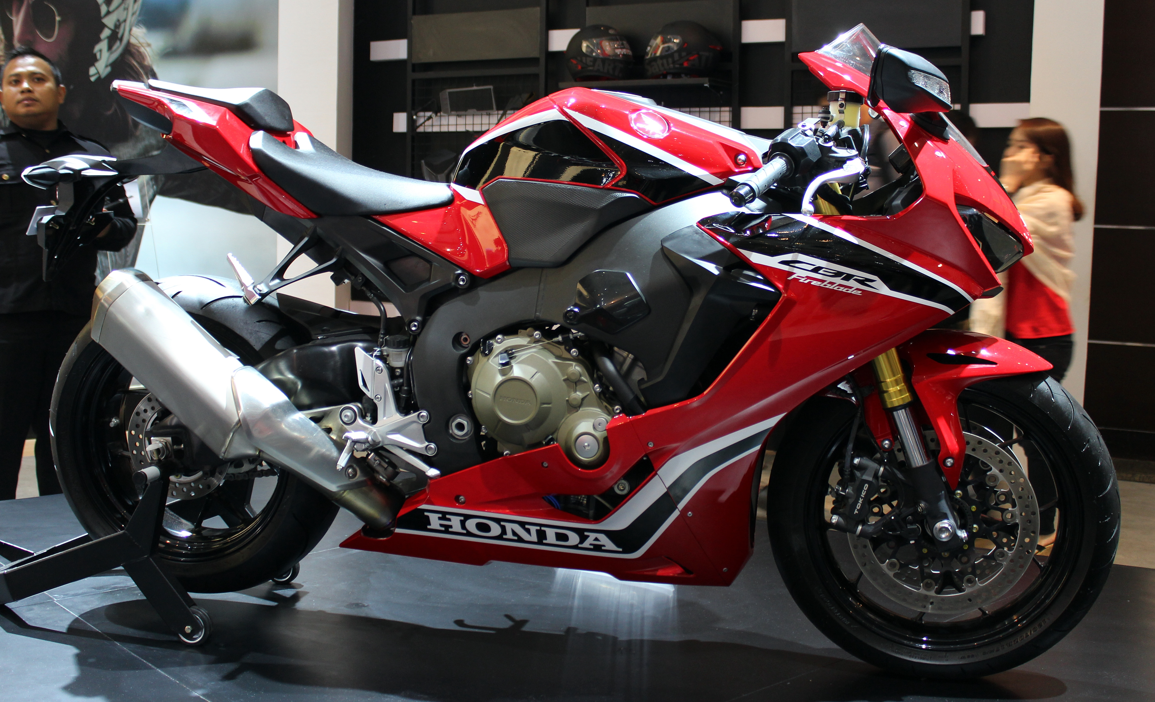 A Honda CBR1000RR Fireblade photographed in Indonesia International Motor Show 2017, Jakarta, Indonesia on April 30, 2017.